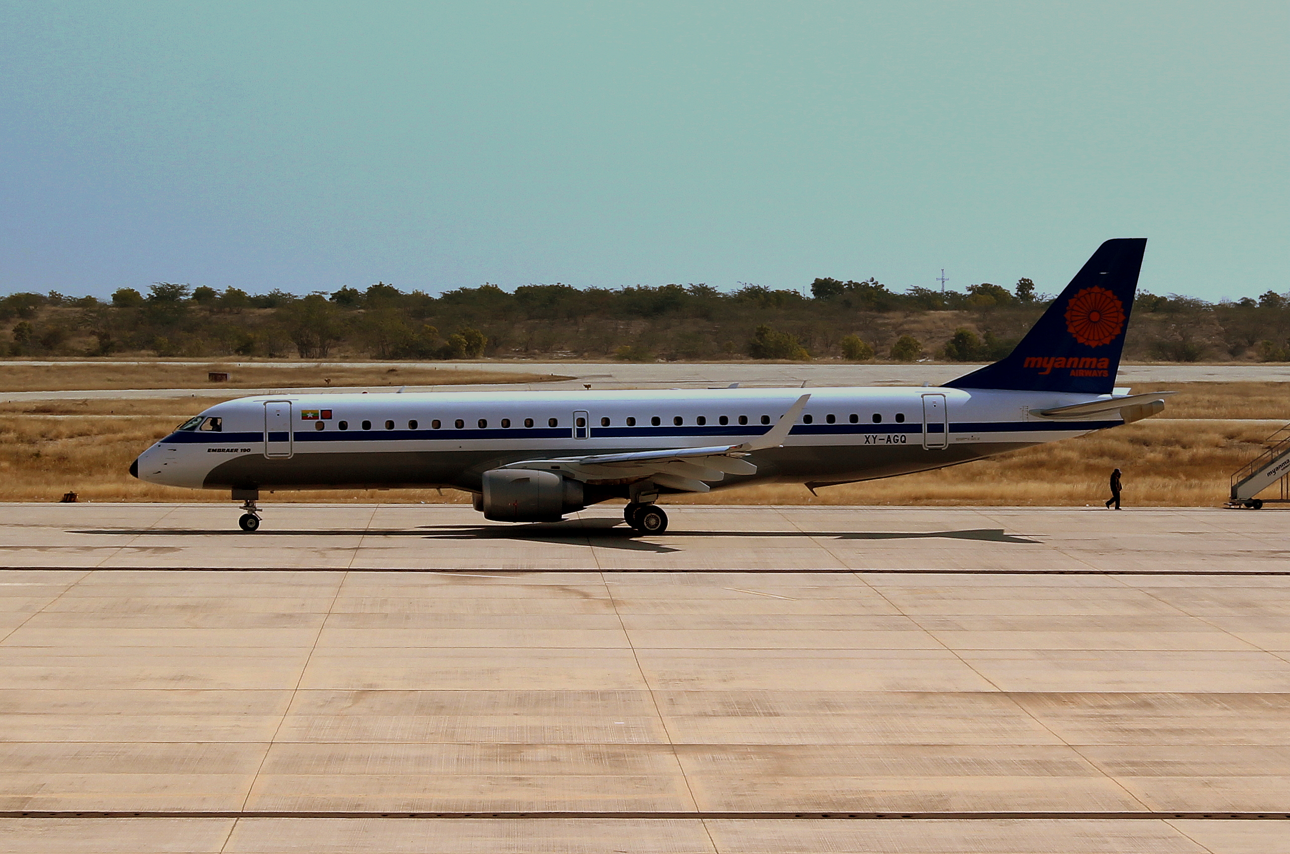 WILL REPLACE THE FOKKER F28-4000,S STILL IN SERVICE WITH MYANMA AIRWAYS